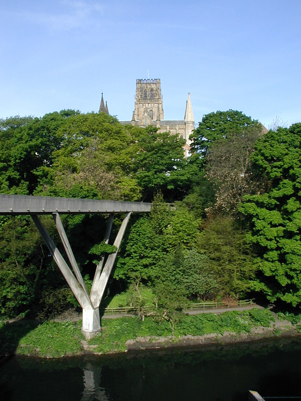 A view of Durham Cathedral from Dunelm House, Durham, the building occupied by Durham Students' Union. Tim Packer.